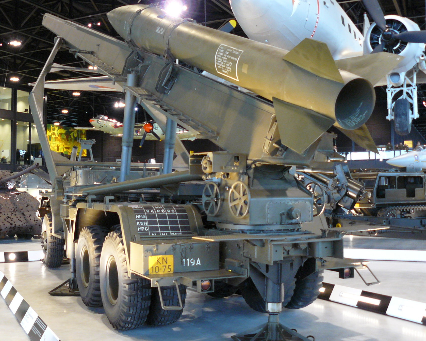 Rearview of Honest John missile launcher as seen in National Militair Museum in Soesterberg, the Netherlands.